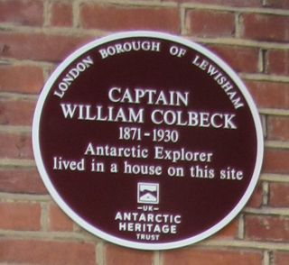 Photo of circular maroon plaque with wording in centre: Captain William Colbeck 1871-1930 Antarctic Explorer lived in a house on this site. Text around circumference reads: London Borough of Lewisham; UK Antarctic Heritage Trust.